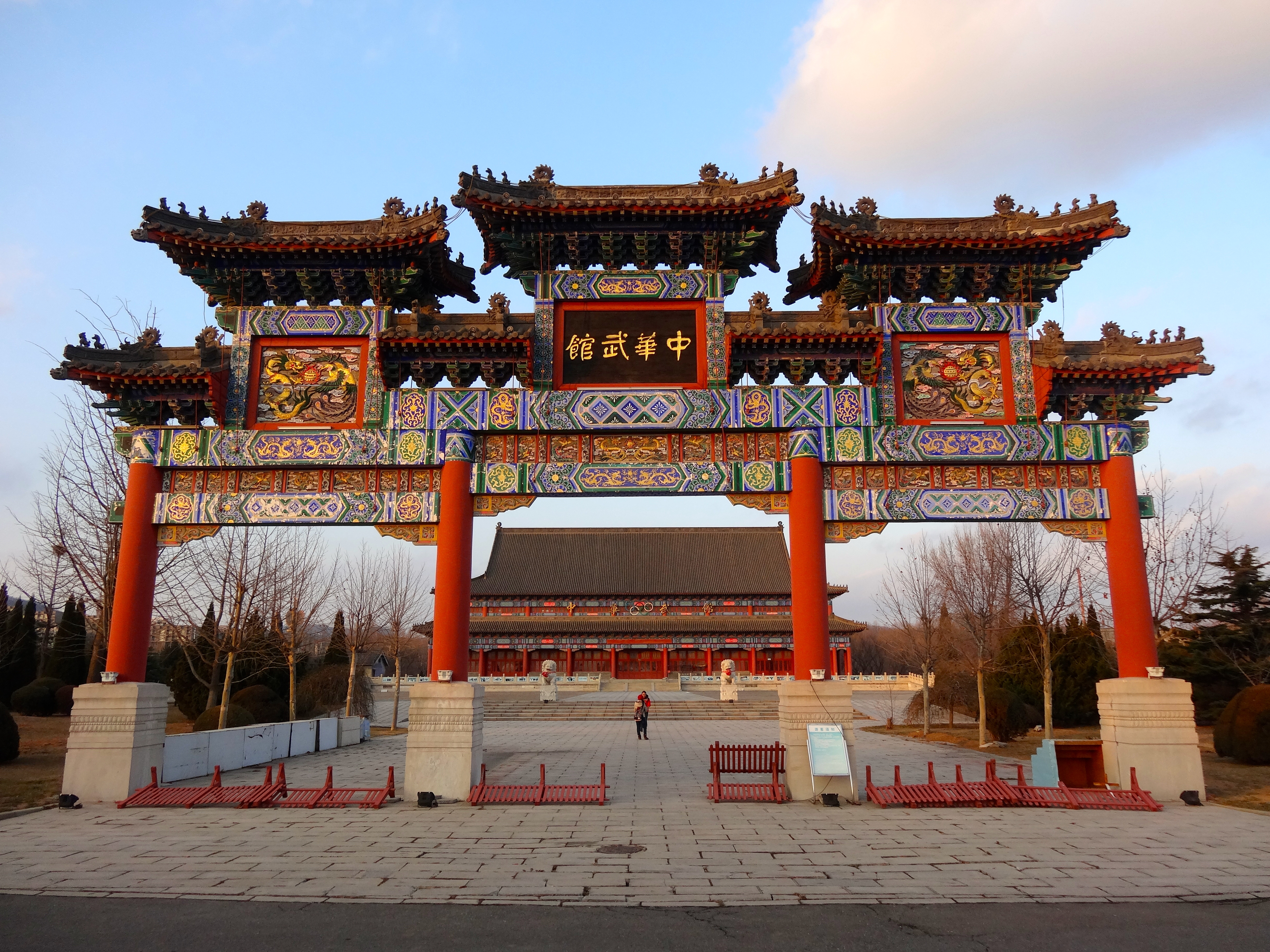 China Martial Arts Hall at Jinshitan National Holiday Resort, Dalian, China